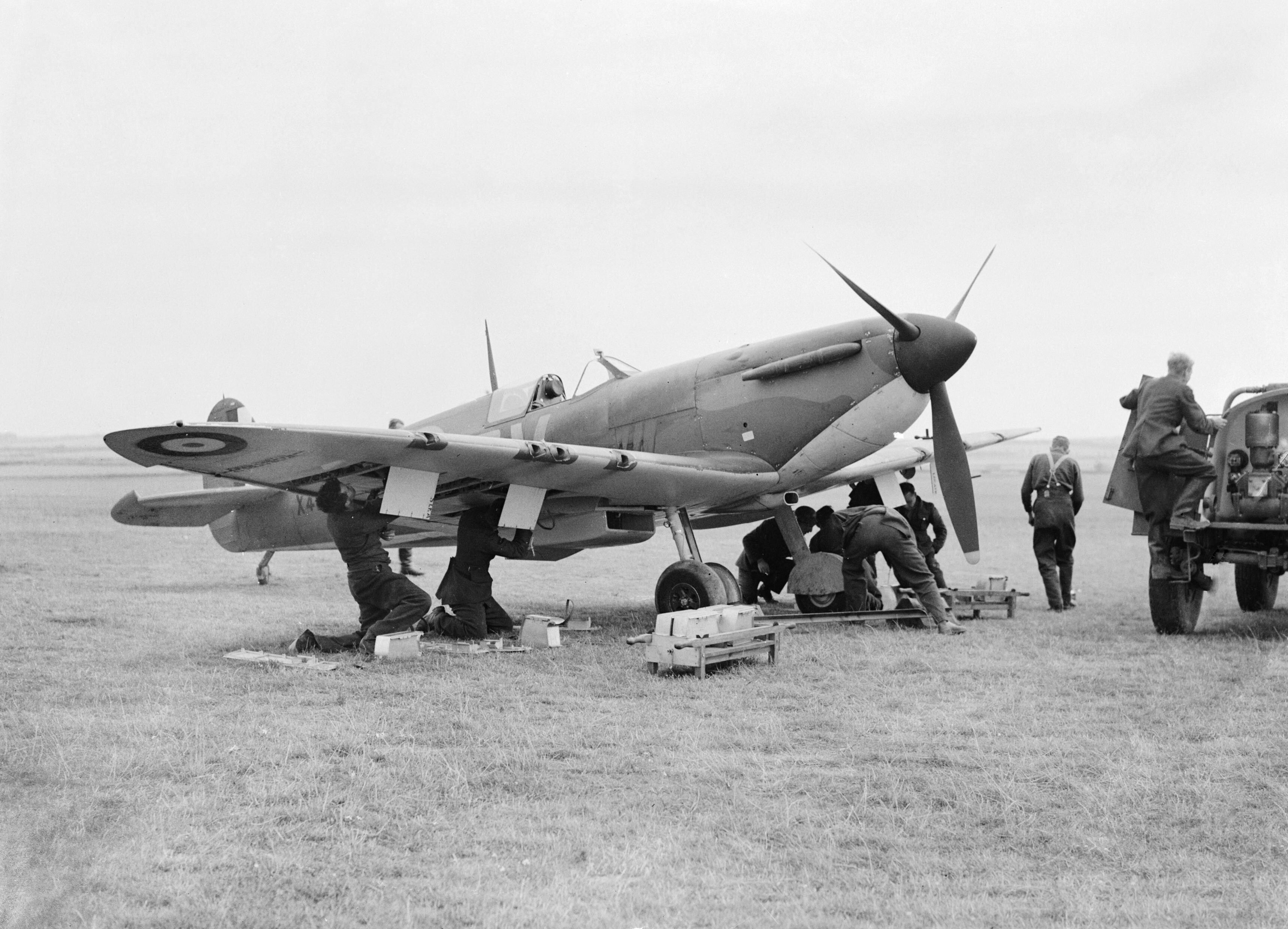 A Supermarine Spitfire Mk 1 of No. 19 Squadron RAF being re-armed between sorties at Fowlmere, near Duxford, September 1940. A Supermarine Spitfire Mark 1A of No 19 Squadron, Royal Air Force being re-armed between sorties at Fowlmere, Cambridgeshire.